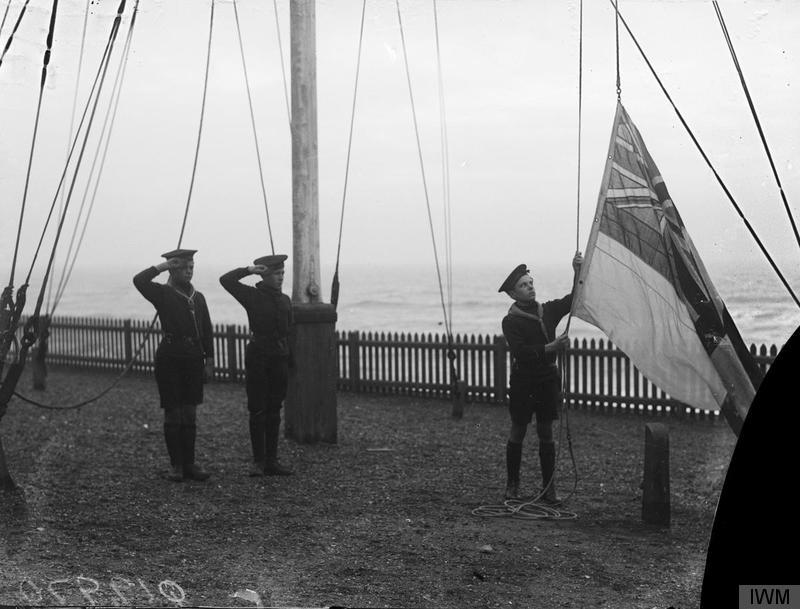 The Boy Scouts Association in Britain, 1914-1918 Members of the Sea Scouts saluting the White Ensign, which is hoisted every morning at 8 o'clock and hauled down at sunset.